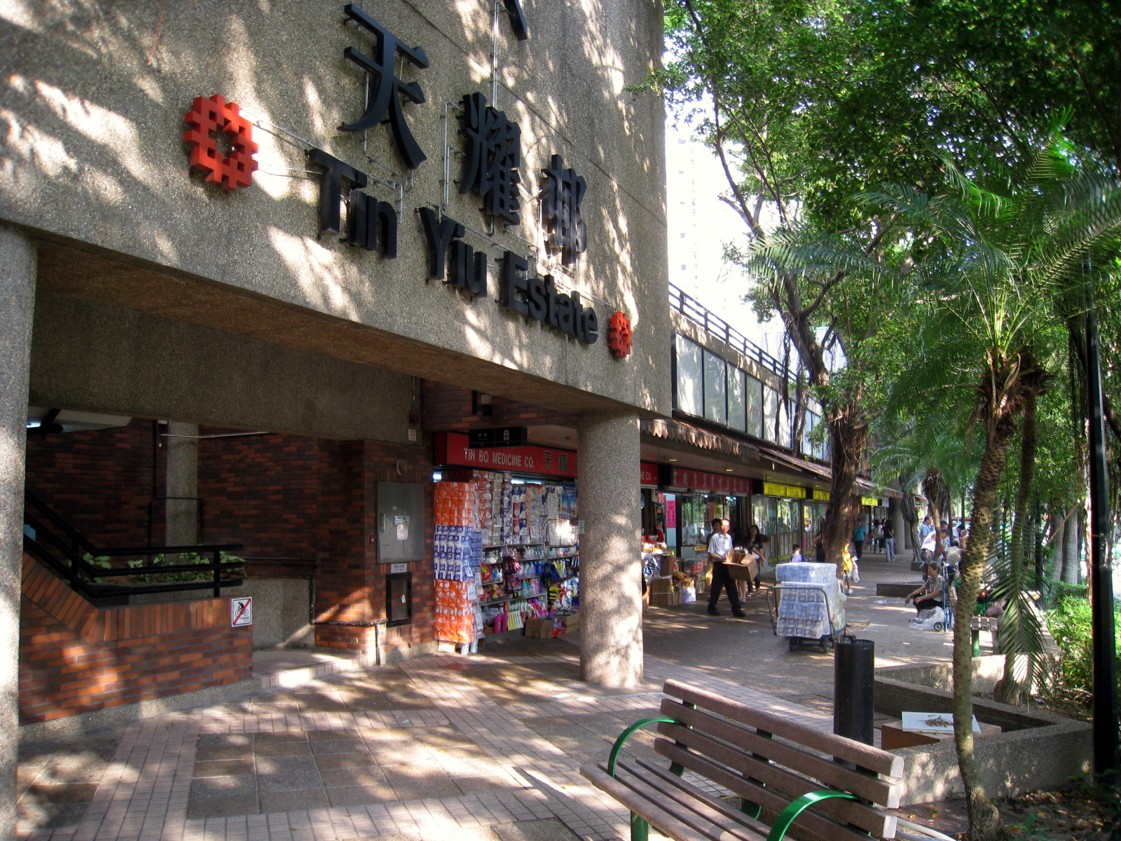 Tin Yiu Shopping Centre Outside Access 天耀商場